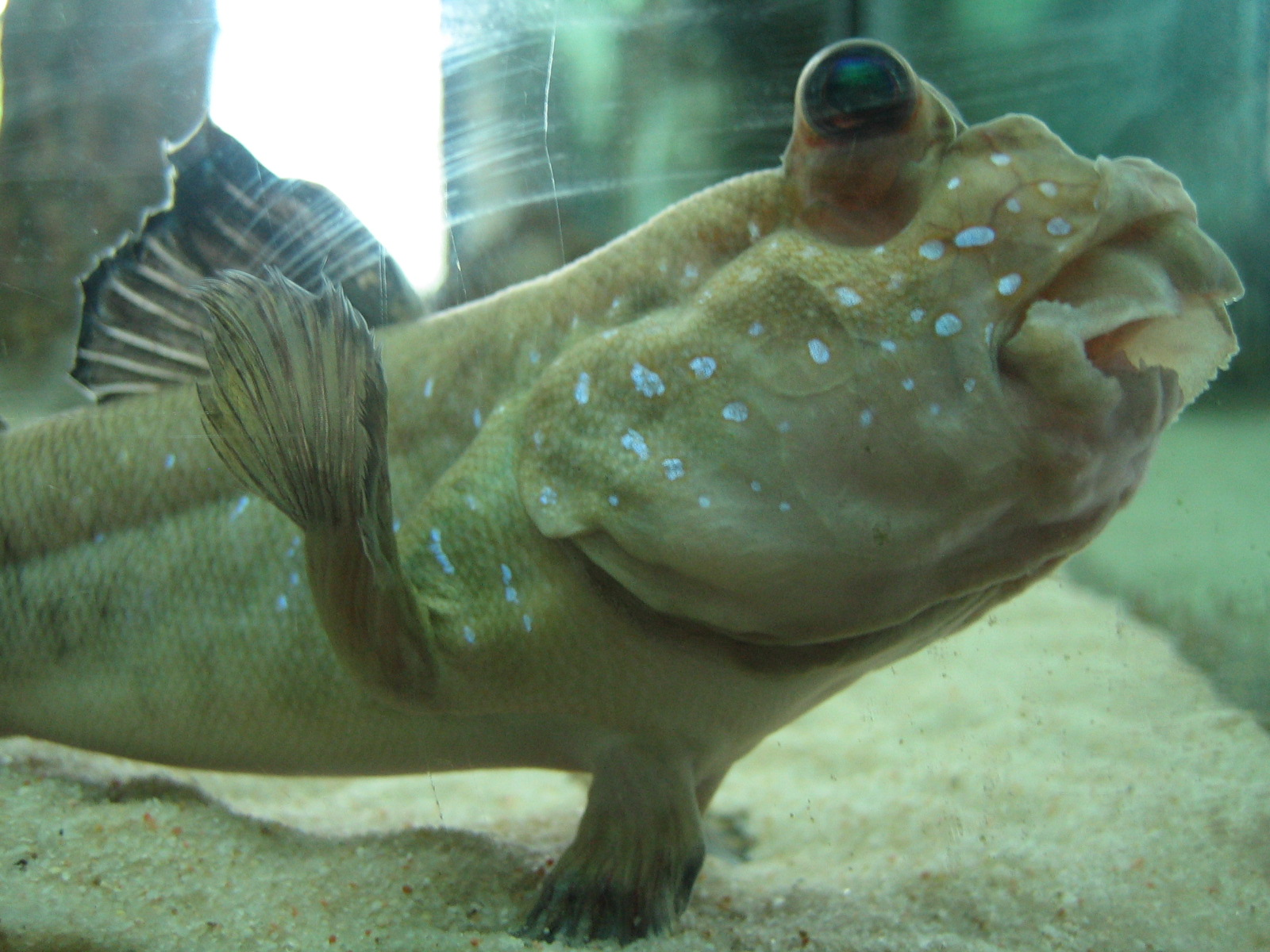 Periophthalmus in Comsmocaixa, Barcelona